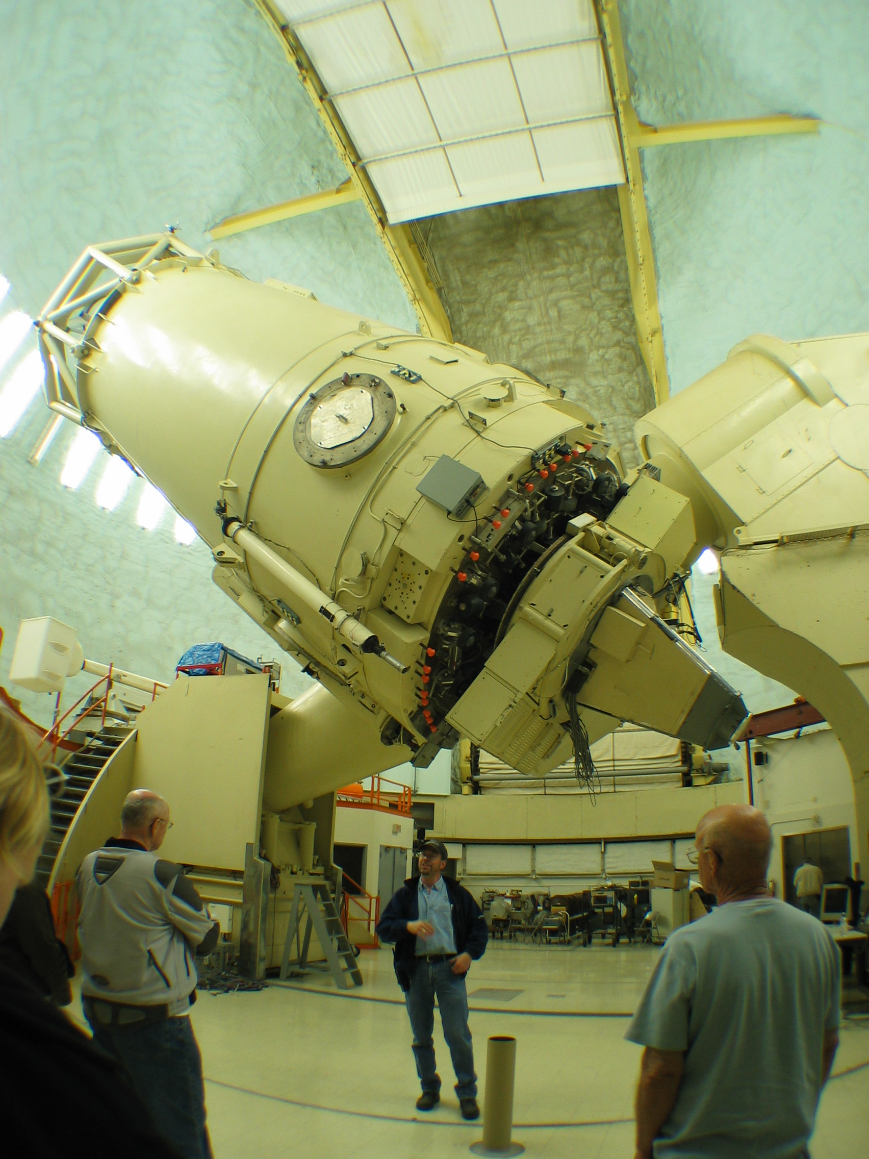 Inside the dome of the Harlan J. Smith Telescope, McDonald Observatory, Fort Davis, Texas, USA.